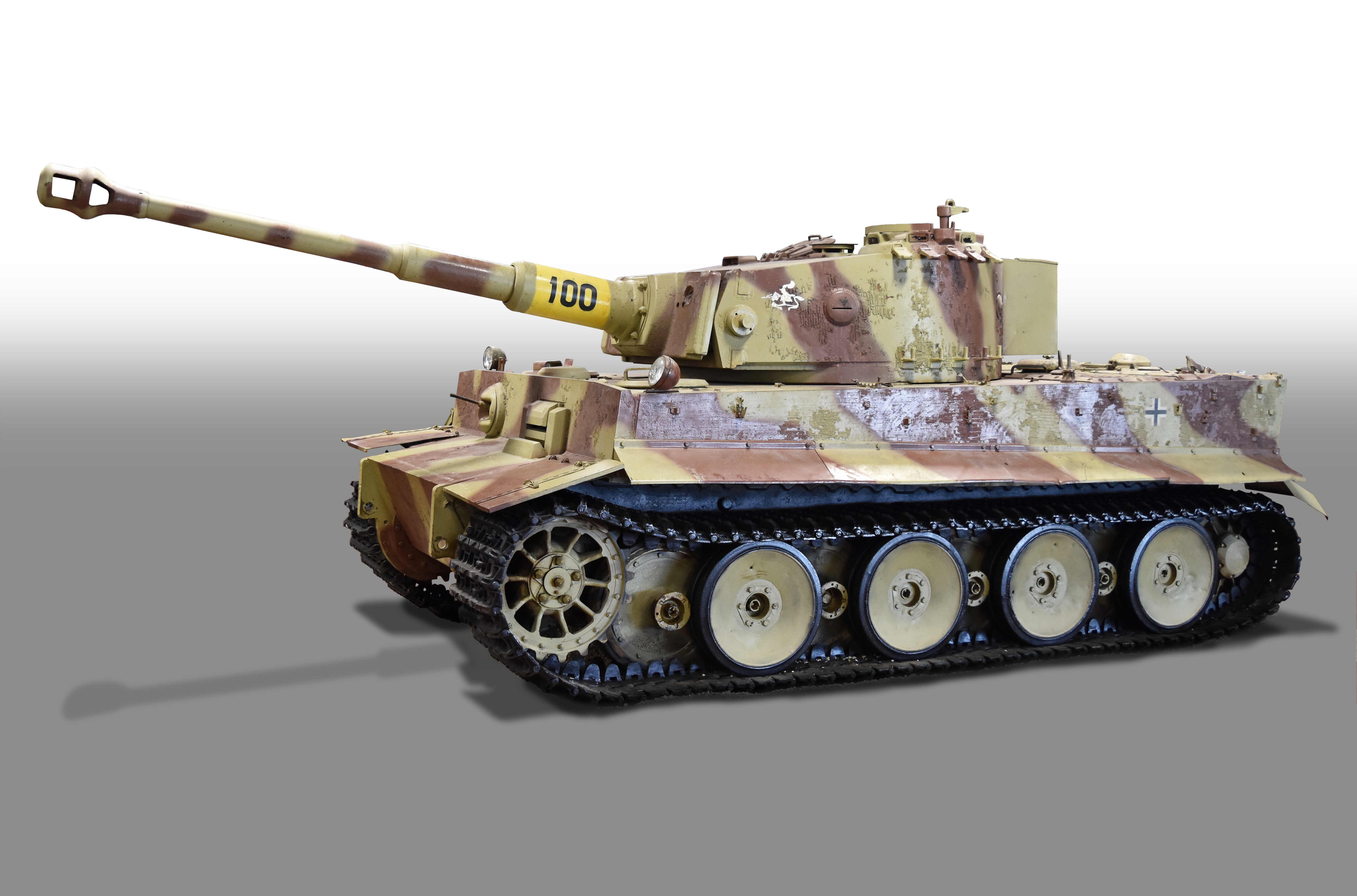 German WW2 era Heavy Tank Official designation:- Sd.Kfz.181 Panzerkampfwagen VI Tiger Ausf E Manufacturer:- Henschel Built:- 1942 to 1944 Total Production:- 1,347 Main Armament:- 88mm KwK 36 L/56 One of the most well-known tanks of all time, the Tiger I was the first German tank to have the 88mm KwK 36 gun. It was originally designed as an offensive breakthrough weapon, but by 1942 when it entered active service the situation required it to be used as a mobile anti-tank weapon, for infantry support, or as a defensive weapon. Although feared, they were over engineered and production was expensive and complicated. A Tiger cost more than four StuG III tank destoyers. Tigers initially suffering with track failures and breakdowns, partly due to their weight and they also had a limited range due to heavy fuel consumption. The Tiger first saw action at Leningrad in September 1942, later joining the North African campaign in Tunisia during December 1942. They also served in Italy, Sicily, in Normandy and on the Eastern Front and they remained in use until the end of the war. Until mid-1944 there were no Allied tanks which could successfully engage a Tiger, before the appearance of the Sherman Firefly, T-34/85 and IS-2. Only seven examples of the Tiger 1 survive. This one has recently been repainted into an accurate colour scheme and markings. It is on display in Hall 10 of the Patriot Museum Complex. Park Patriot, Kubinka, Moscow Oblast, Russia. 25th August 2017